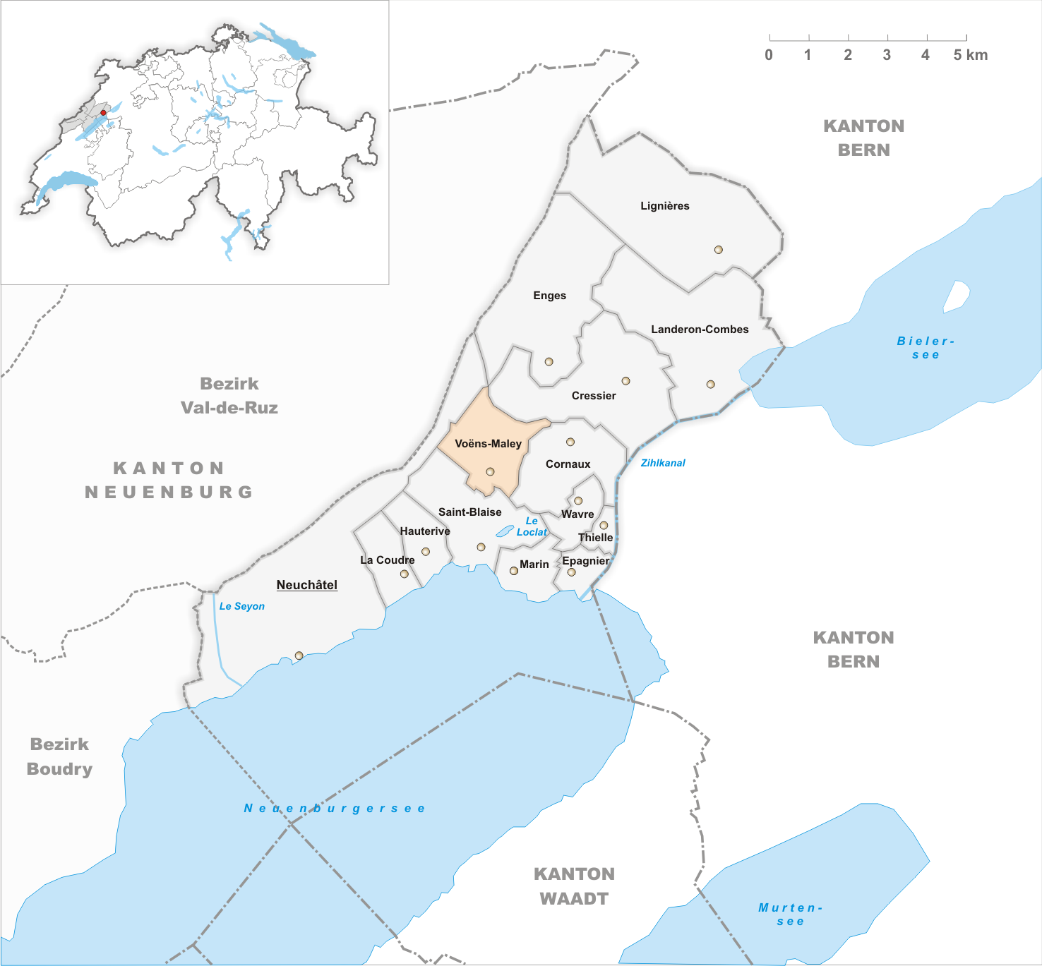 Municipality Voëns-Maley Artist: Tschubby